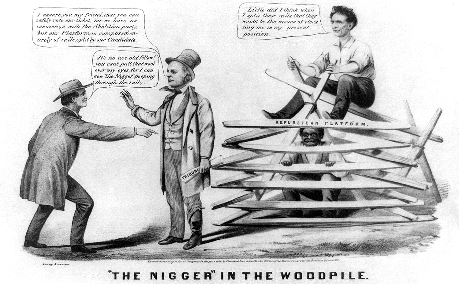 An anti-abolitionist parody of Republican efforts to play down the antislavery plank in their 1860 platform. Horace Greeley, the prominent New York publicist of the party, stands at left reassuring a man identified as "Young America." "I assure you my friend," he says, "that you can safely vote our ticket, for we have no connection with the Abolition party, but our Platform is composed entirely of rails, split by our Candidate." Young America, who represents progressive Democrats, points insistently toward the right, where candidate Abraham Lincoln sits atop a makeshift construction made of rails marked "Republican Platform," which imprisons an African American man. He tells Greeley, "It's no use old fellow! you can't pull that wool over my eyes for I can see 'the Nigger' peeping through the rails." Meanwhile, Lincoln reflects, "Little did I think when I split these rails that they would be the means of elevating me to my present position." (US Library of Congress)